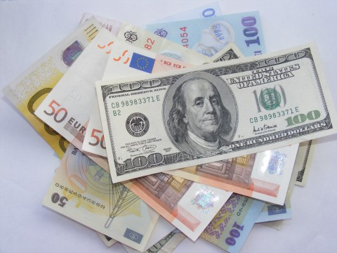 Free Photos – Money – EURO, USD and LEI More Photos and Full Size Up to 3072 x 2304 pixels Information Regarding Copyright